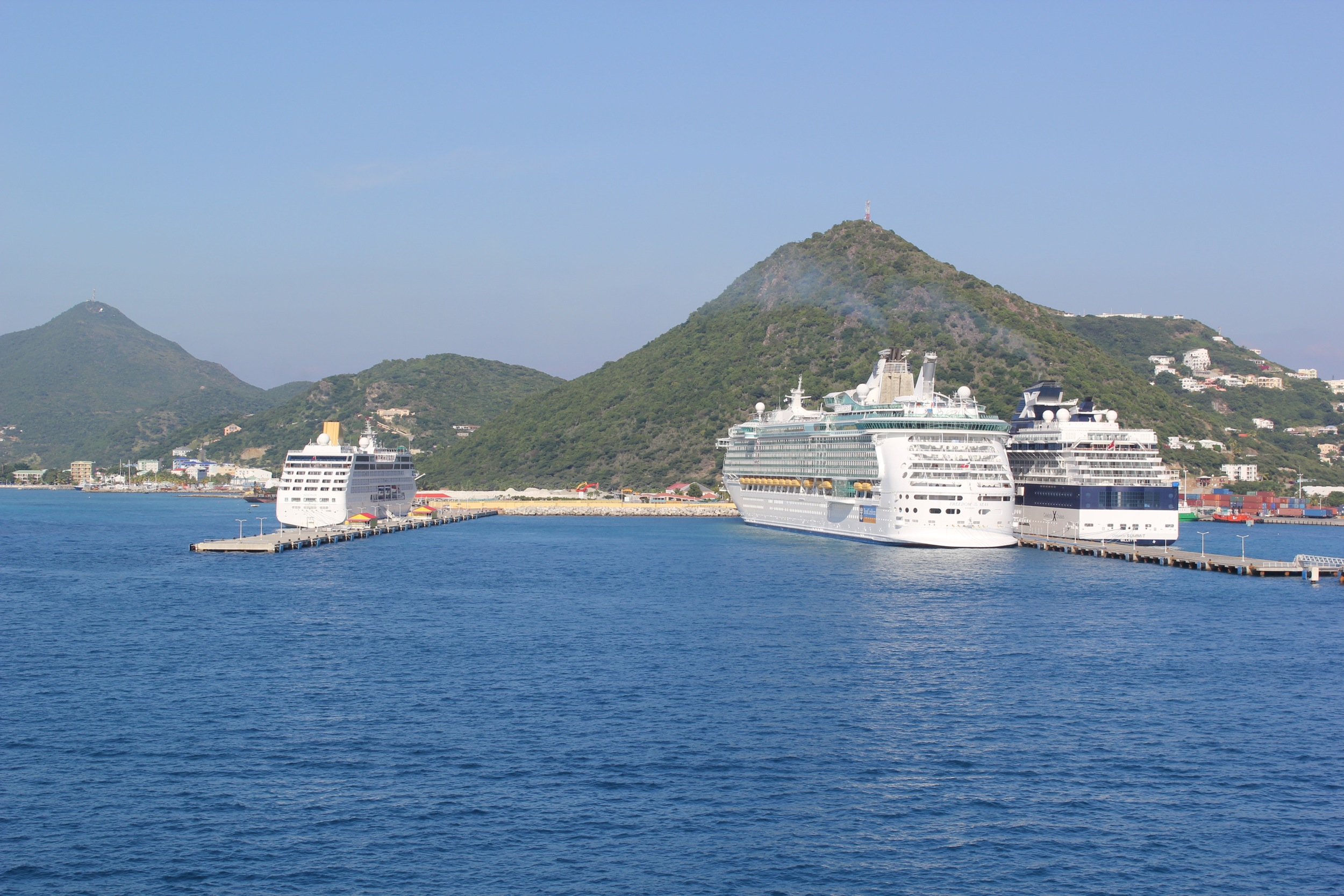 St Maarten More of my shots of Caribbean Cruise can be found here.